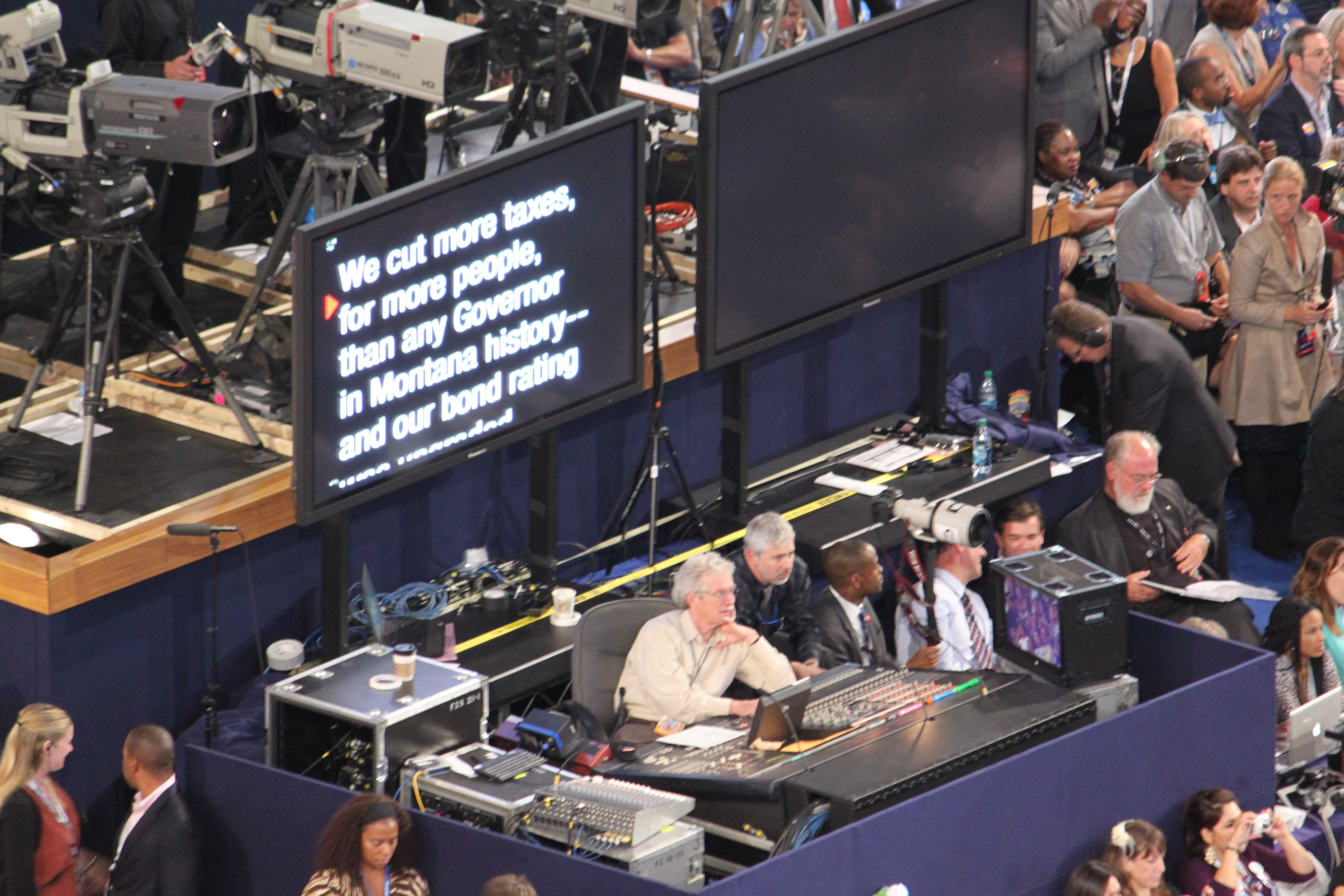 2012 Democratic National Convention: Day 3 during Brian Schweitzer's speech